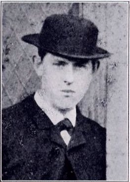 Photo of F.W. Bradley, Sr. c. 1880s